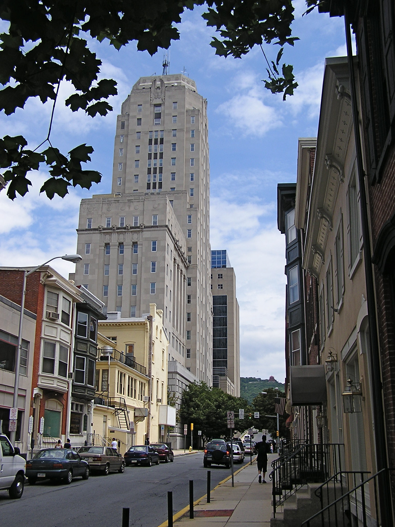 Downtown Reading, Pennsylvania; with Berks County courthouse on left; July 2007